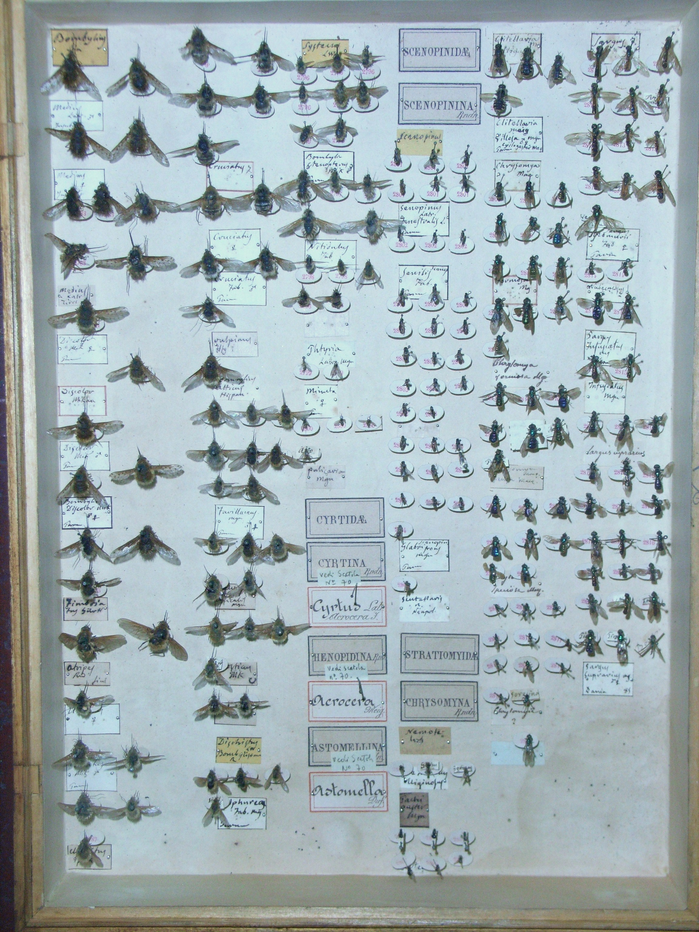 Camillo Rondani Diptera Collection La Specola